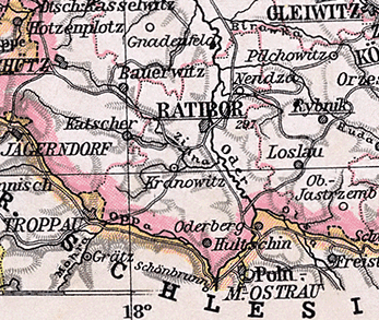 Detail from a map of Silesia.